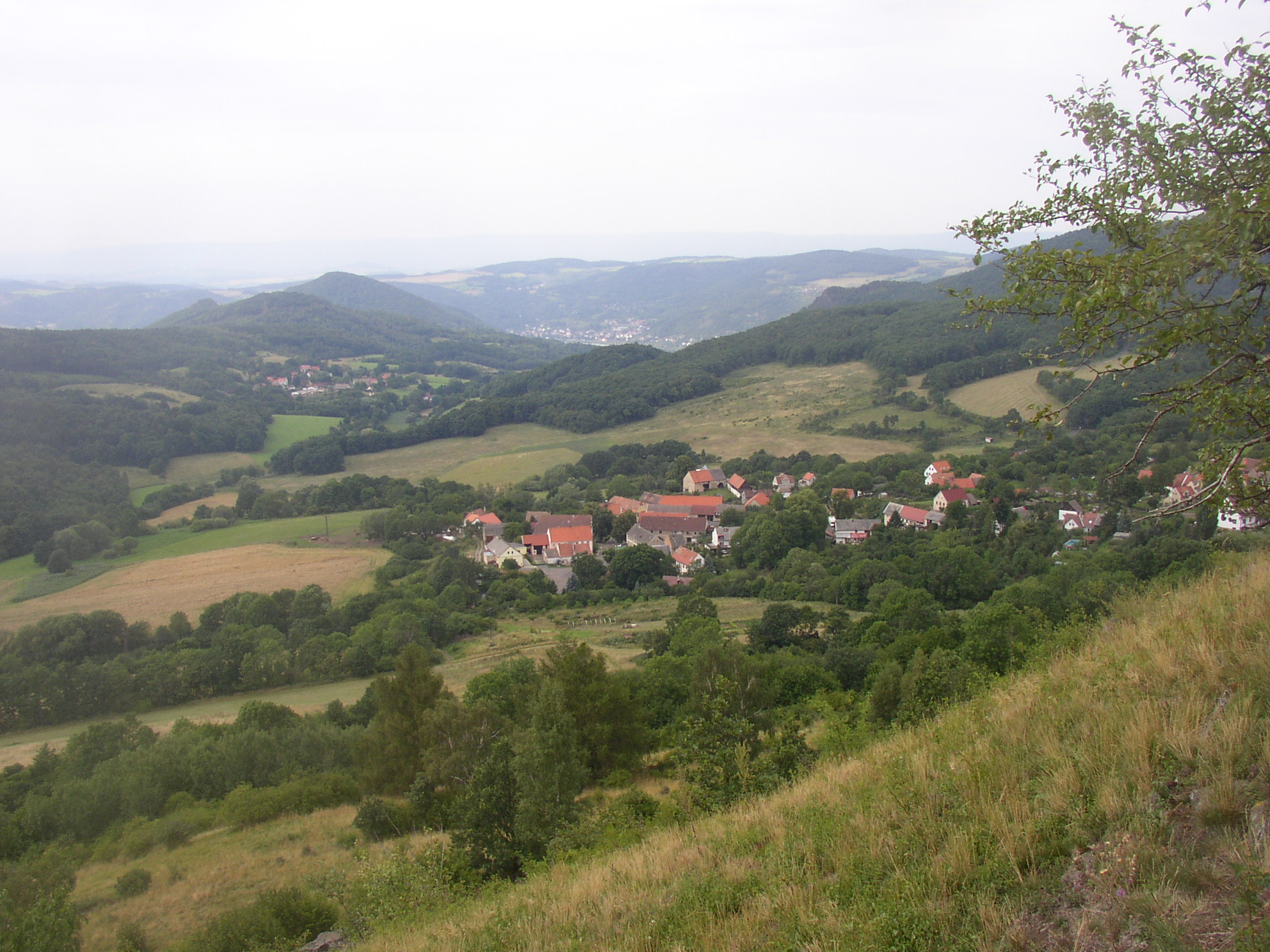 České středohoří, Czech Republic. A view from Hradiště (545 m) over village of Hlinná and valley of Tlučeň towards northwest.